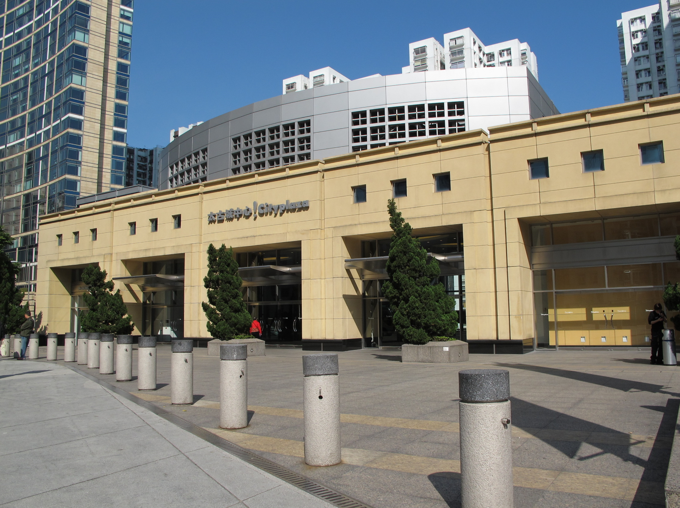 Cityplaza Phase 1 King's Road Enterance 太古城中心英皇道入口